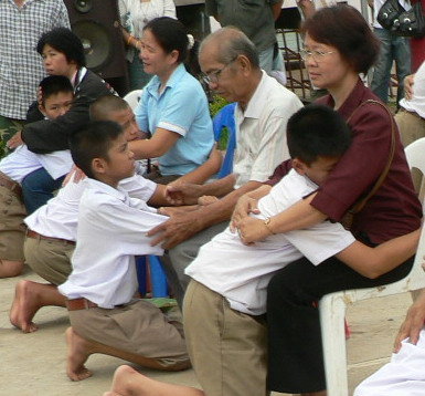 Children embraces their mother and father with the love.